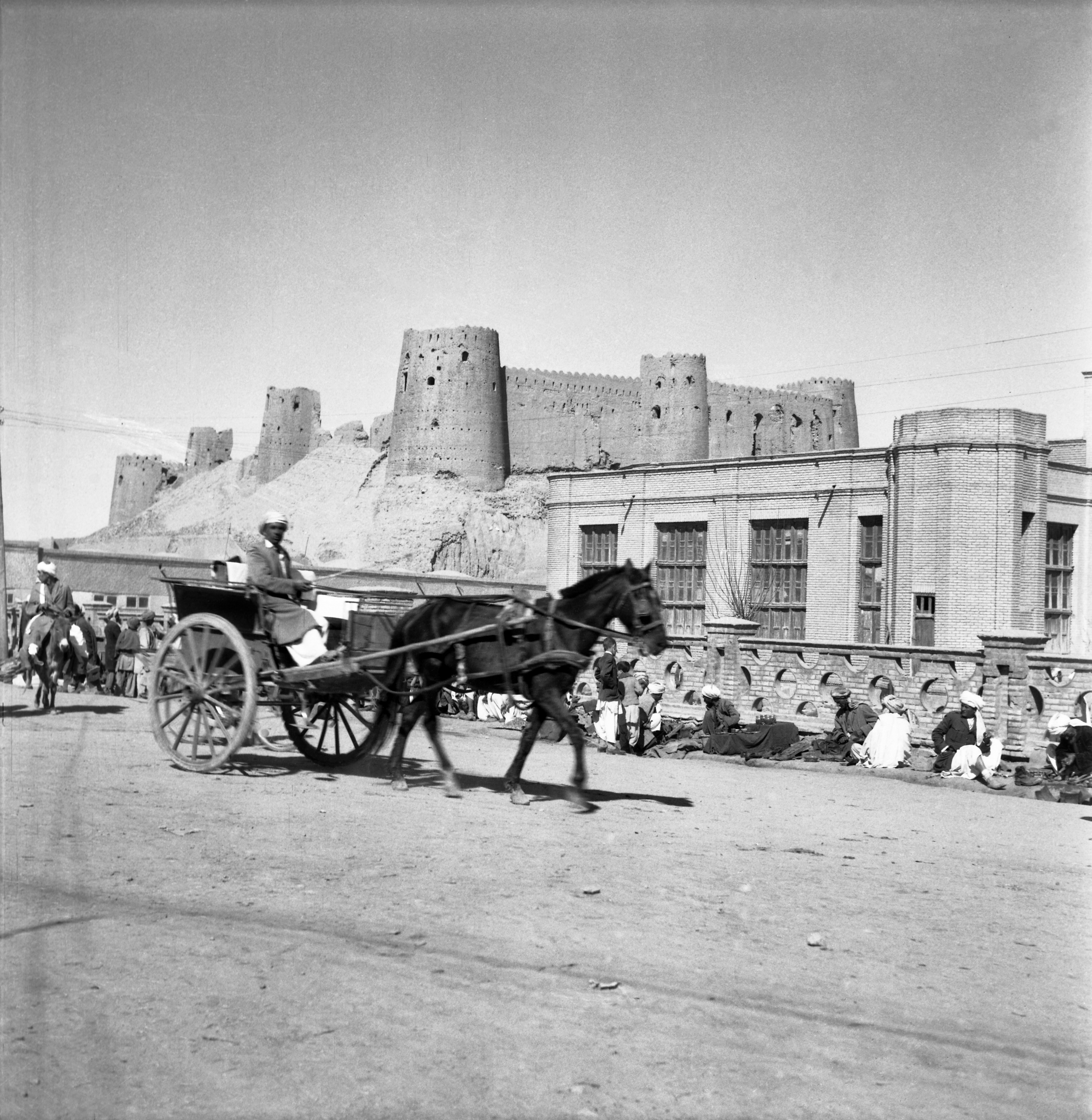 The Citadel of Herat